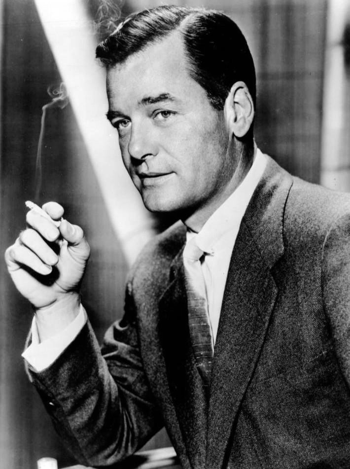 Publicity photo of Gig Young from the television program The Hollywood Palace.